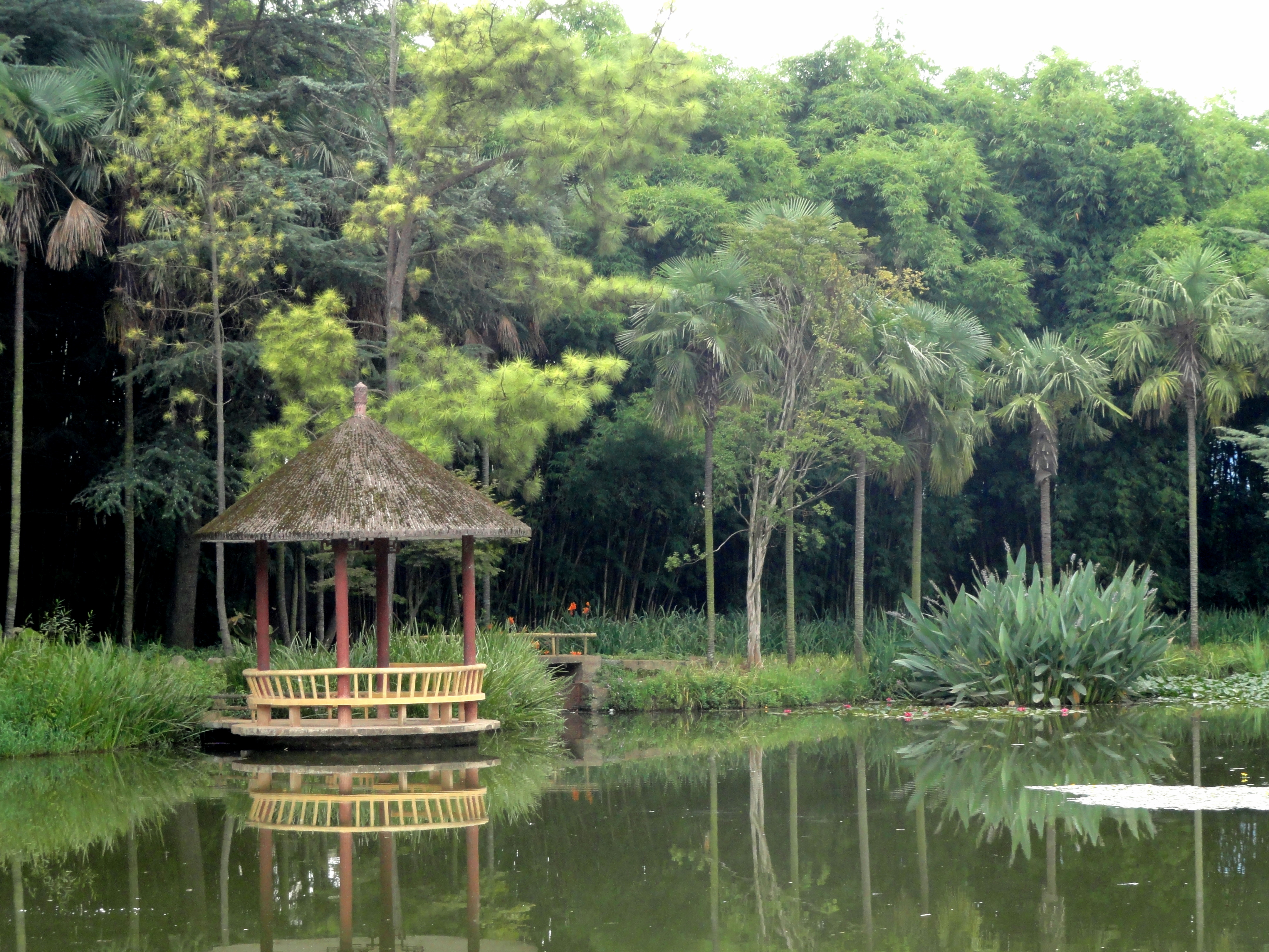 General view of Kunming Botanical Garden, Kunming, Yunnan, China.